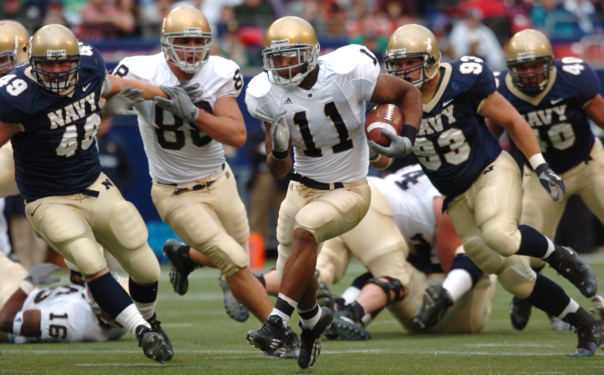 Notre Dame running back Marcus Wilson races for yardage as a trio of U.S. Naval Academy Midshipmen defenders gives chase at Giants Stadium in East Rutherford, N.J.